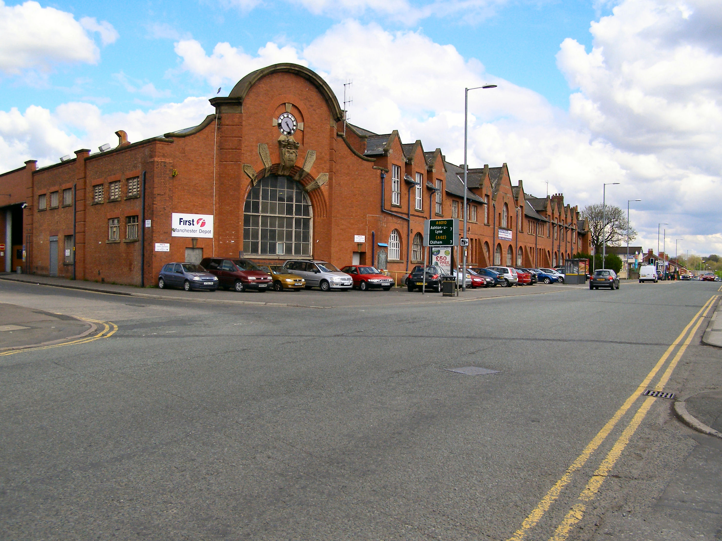 Photograph of the Queens Road Bus Depot, Cheetham Hill, Manchester, England